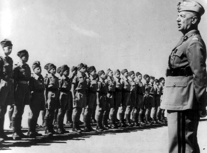 General Sikorski with Polish "junaks" (cadets) in the Middle East 1943, visiting Polish Army in the Middle East under command of Gen. Władysław Anders